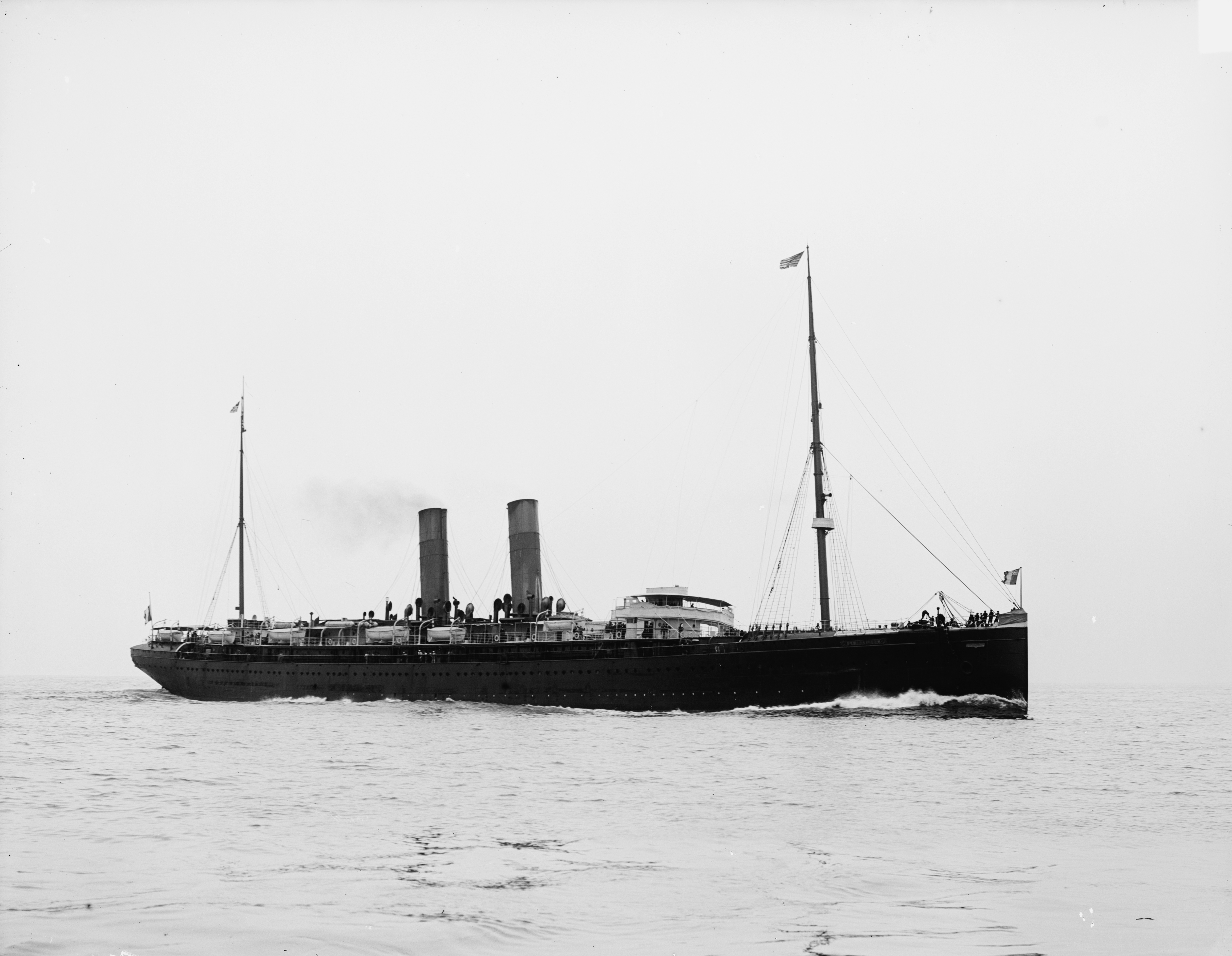 SS La Bretagne seen between 1900 and 1912 Description from Library of Congress website: TITLE: S.S. De Bretagne [sic] CALL NUMBER: LC-D4-21749 [P&P] REPRODUCTION NUMBER: LC-D4-21749 (b&w glass neg.) MEDIUM: 1 negative : glass ; 8 x 10 in. CREATED/PUBLISHED: [between 1900 and 1915] RELATED NAMES: Detroit Publishing Co., publisher. NOTES: "1515" on negative. Detroit Publishing Co. no. 021749. Gift; State Historical Society of Colorado; 1949. SUBJECTS: De Bretagne (Steamship) Ships. FORMAT: Dry plate negatives. PART OF: Detroit Publishing Company Photograph Collection REPOSITORY: Library of Congress Prints and Photographs Division Washington, D.C. 20540 USA DIGITAL ID: (digital file from intermediary roll film) det 4a15377 CONTROL #: det1994010995/PP